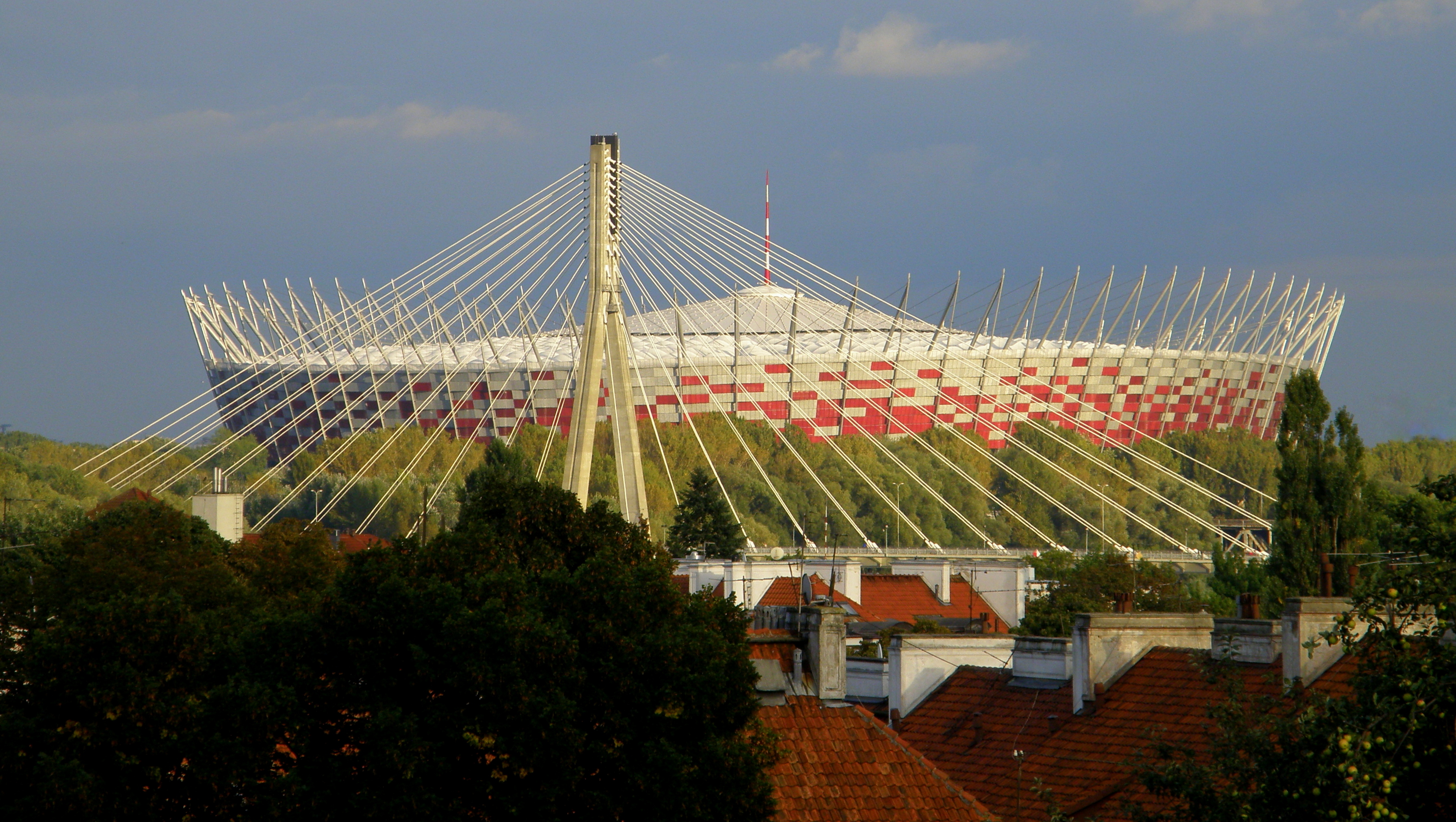 National Stadium and Świętokrzyski (Holy Cross) Bridge, Warsaw - view from the Castle Square